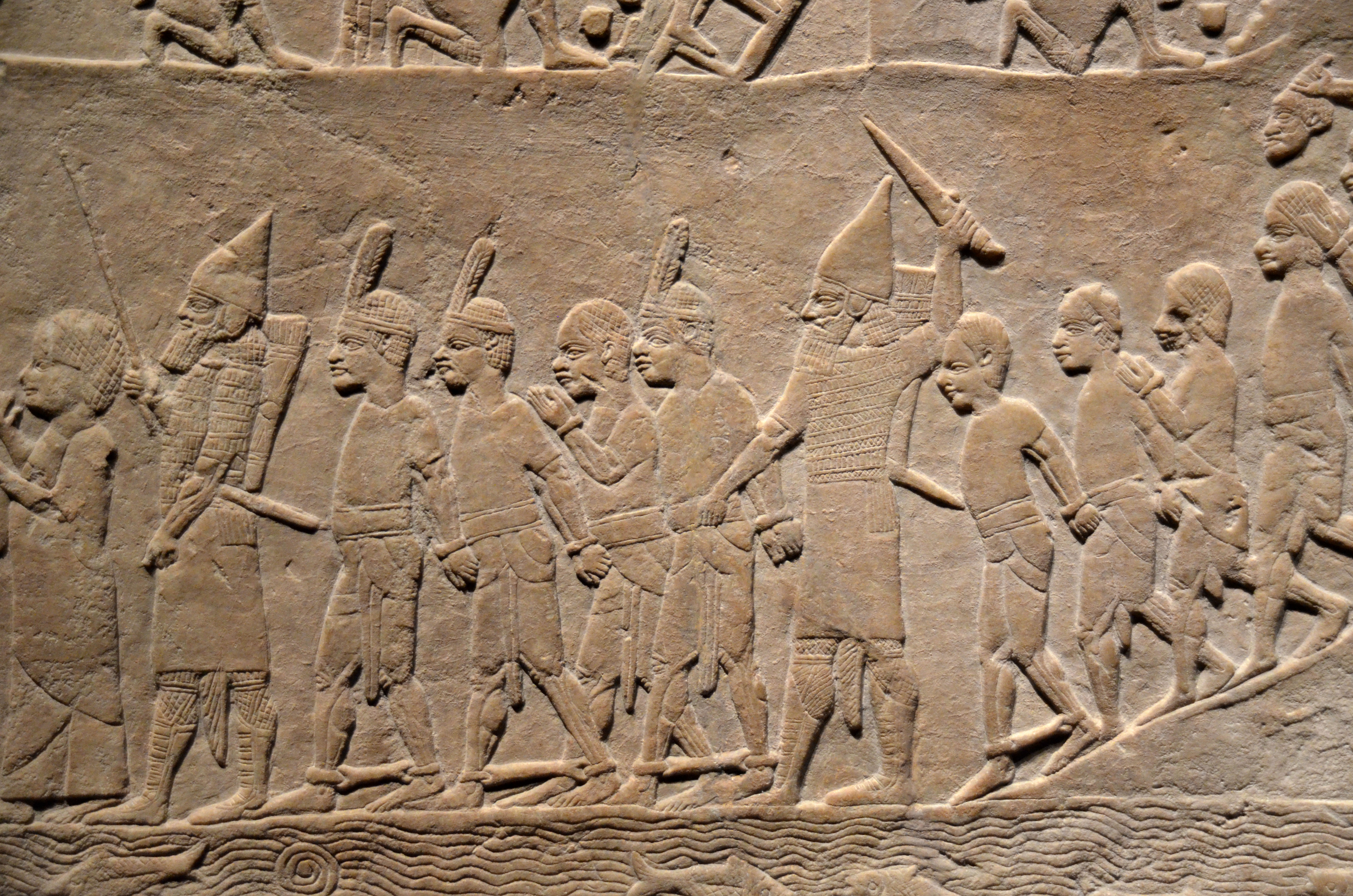 Exhibition: I am Ashurbanipal king of the world, king of Assyria, British Museum